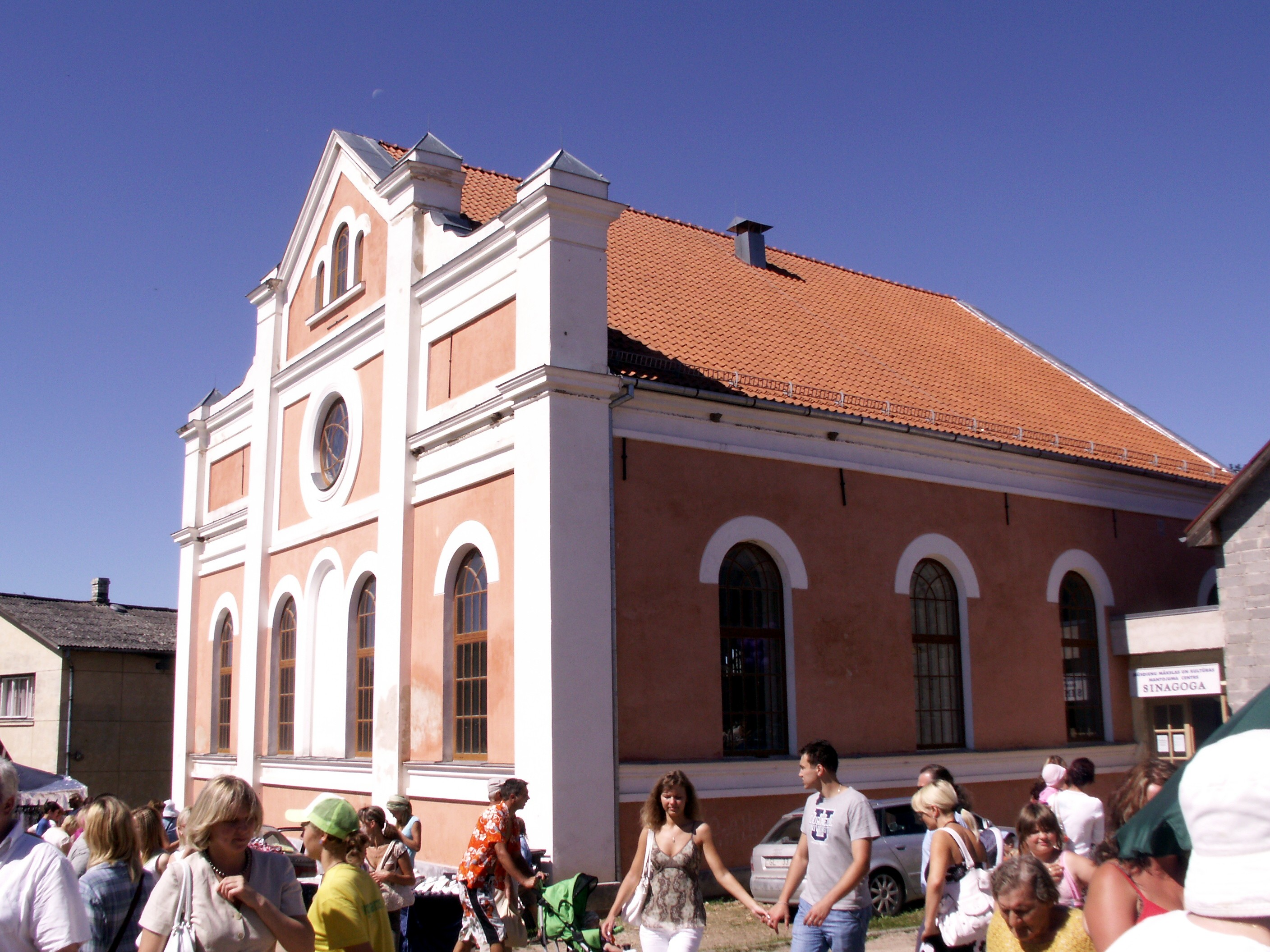 Sabile, Latvija